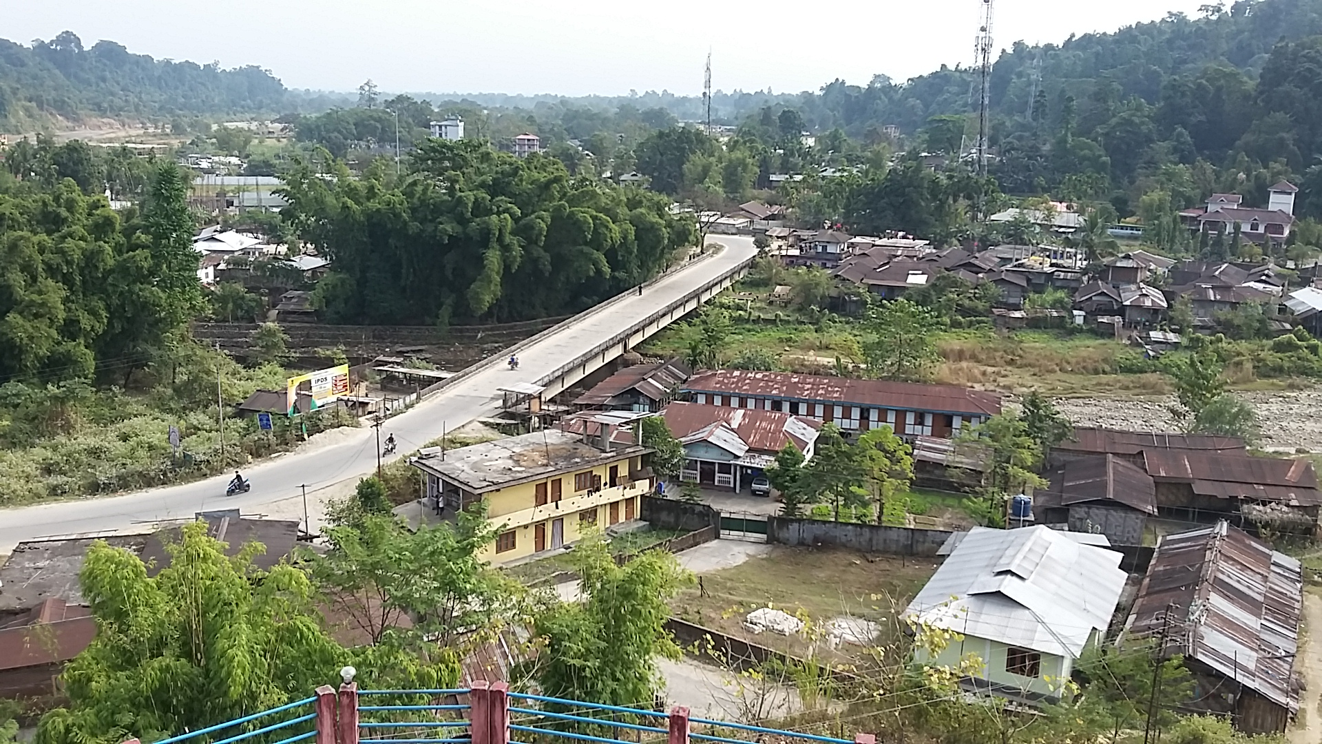 View of Kimin town from a nearby hill.